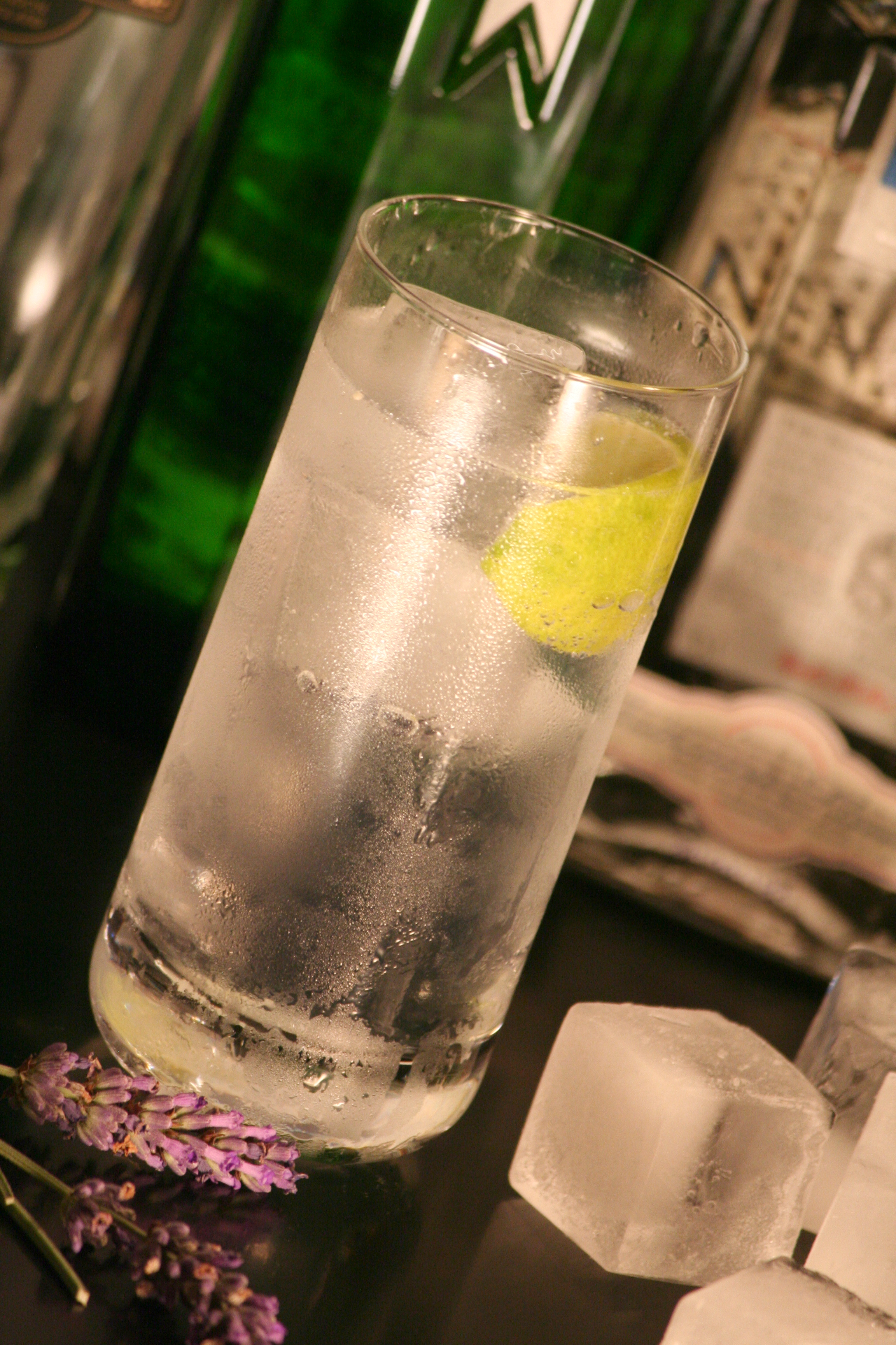 Gin Tonic, built in glas. In the background there are several bottles of gin.